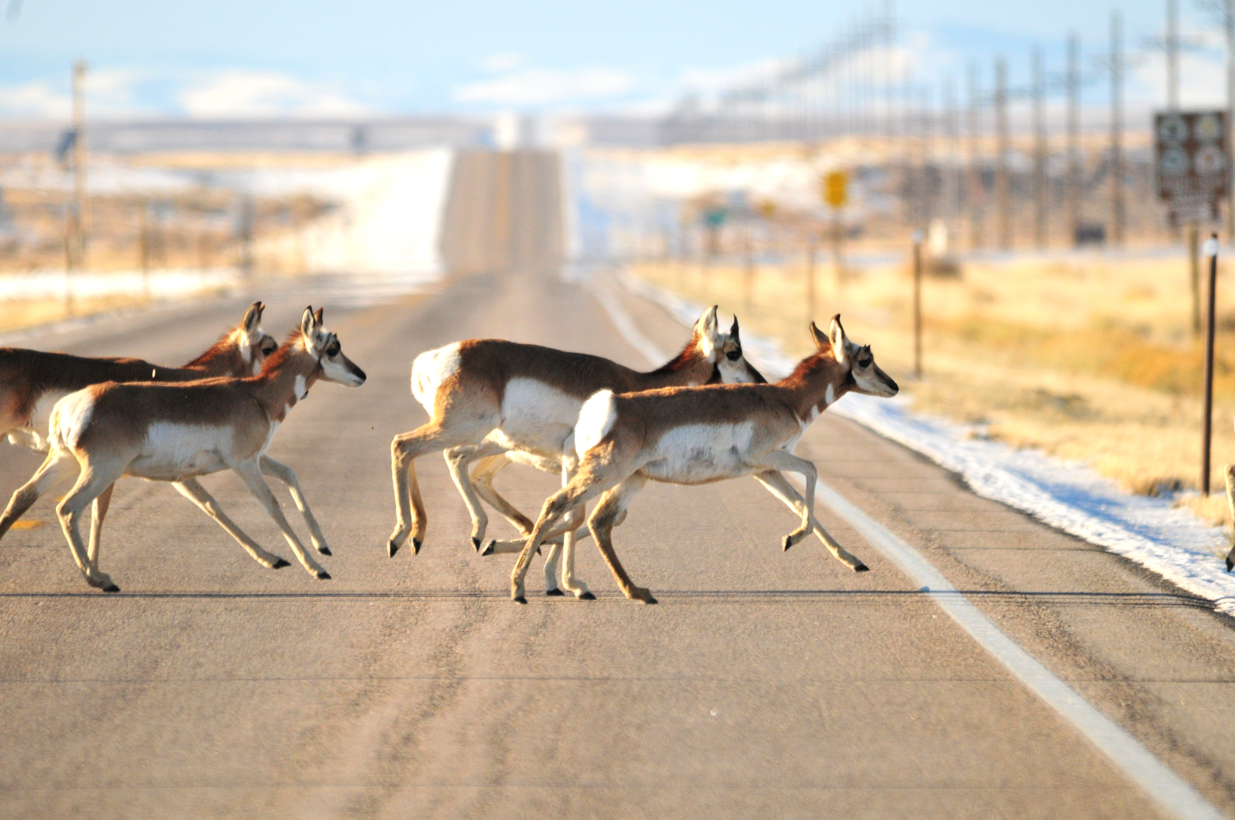 A herd of pronghorns cross Highway 372 on Seedskadee NWR. Photo: Tom Koerner/USFWS